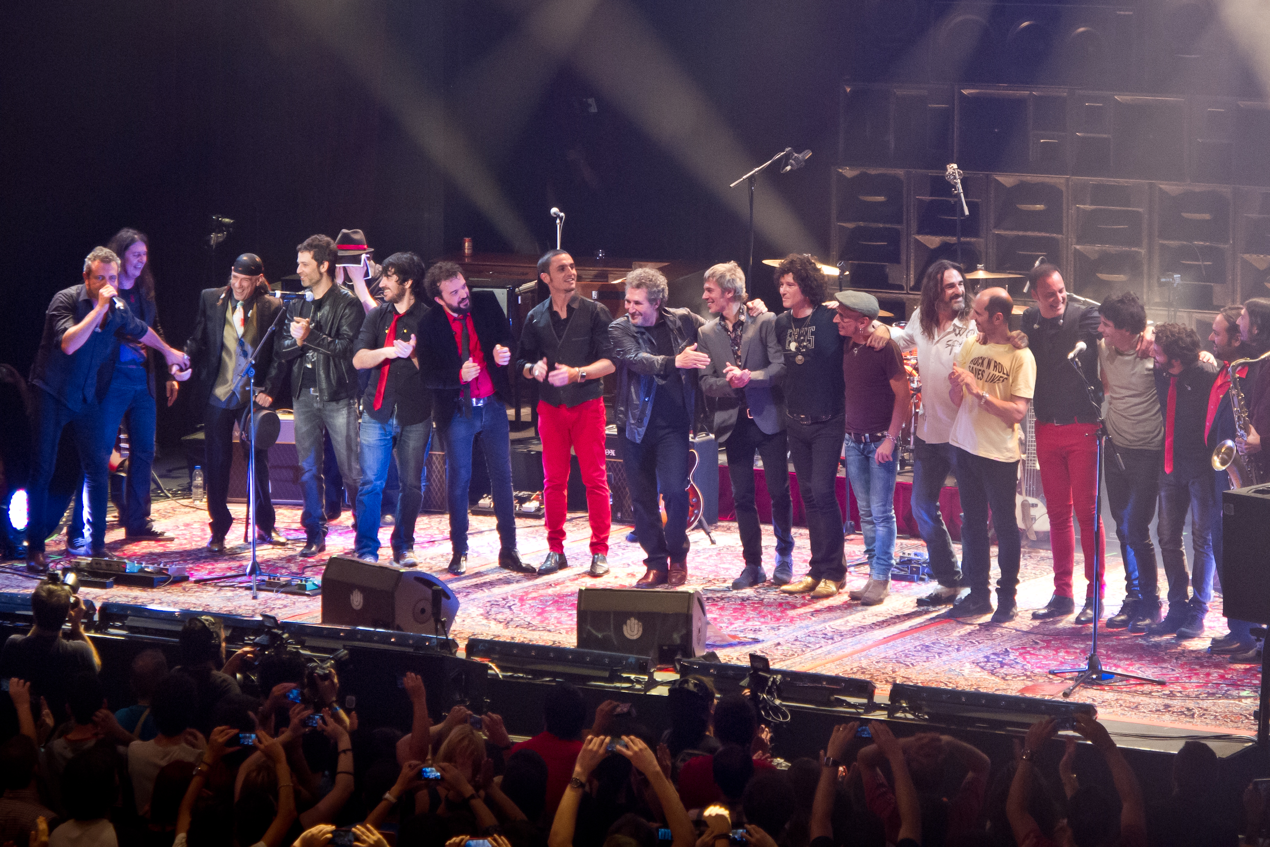 Spanish rock band M Clan at the end of one of their two concerts for their 20th anniversary, with all their guests, at the Teatro Circo Price, Madrid, Spain.